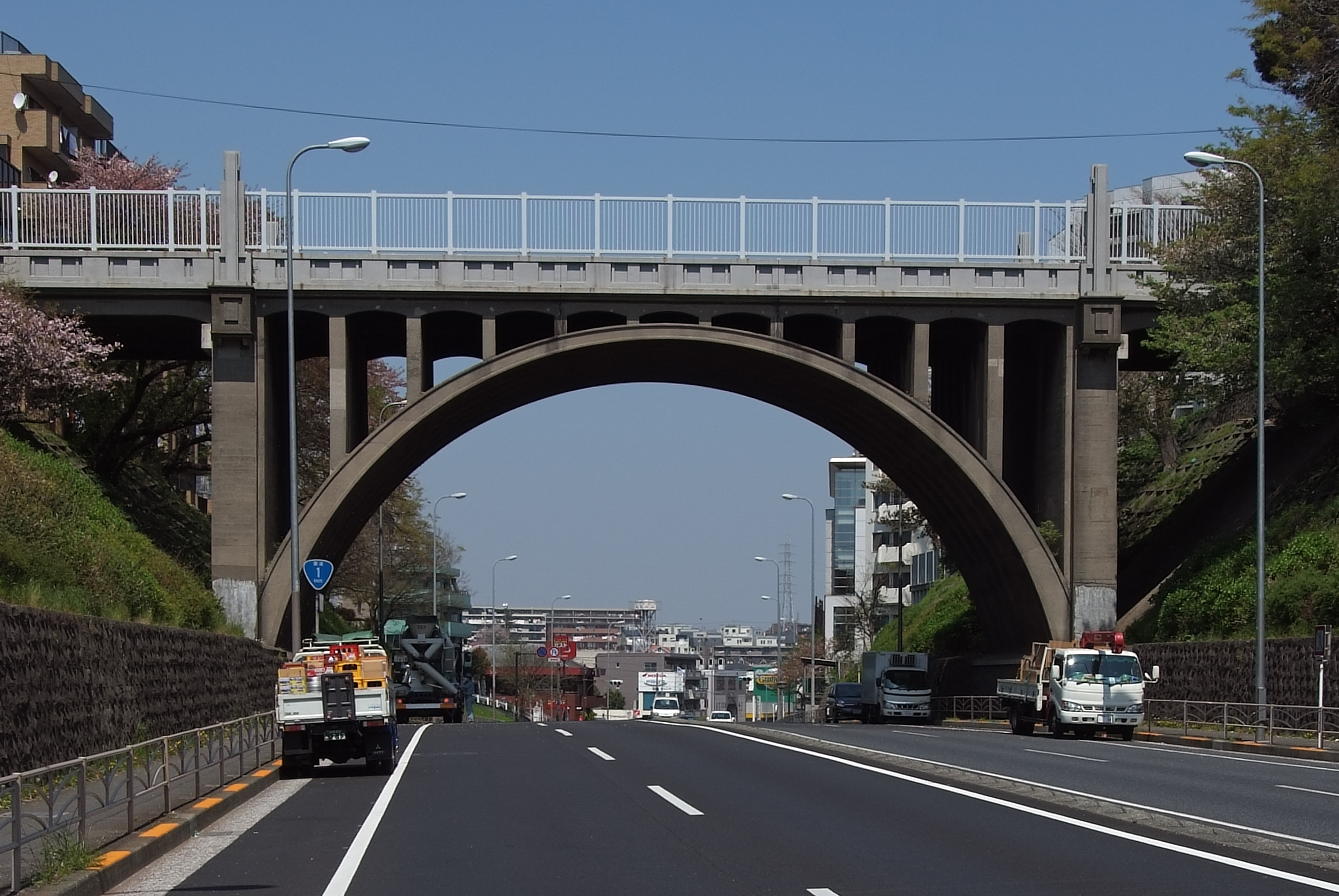 Hibiki Bridge, at Tsurumi-ku Yokohama, design by Kenji Imai in 1941.